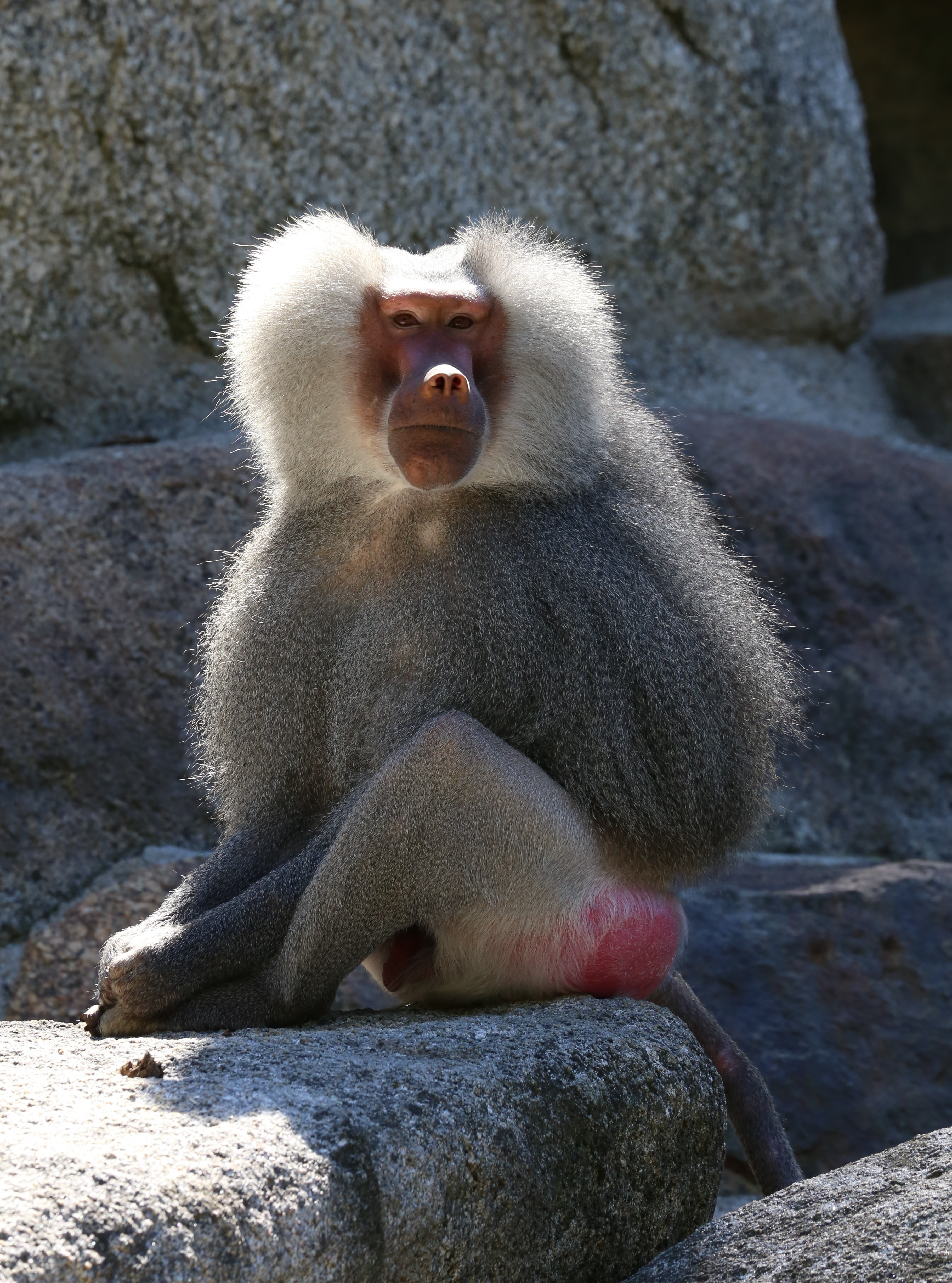 Pavian (Papio hamadryas), Tierpark Hellabrunn, München